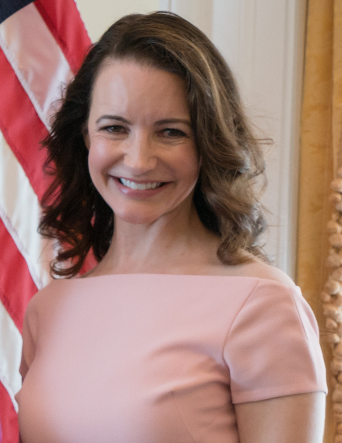 Kristin Davis Goodwill Ambassador UNHCR - Cropped from photo while meeting Nancy Pelosi